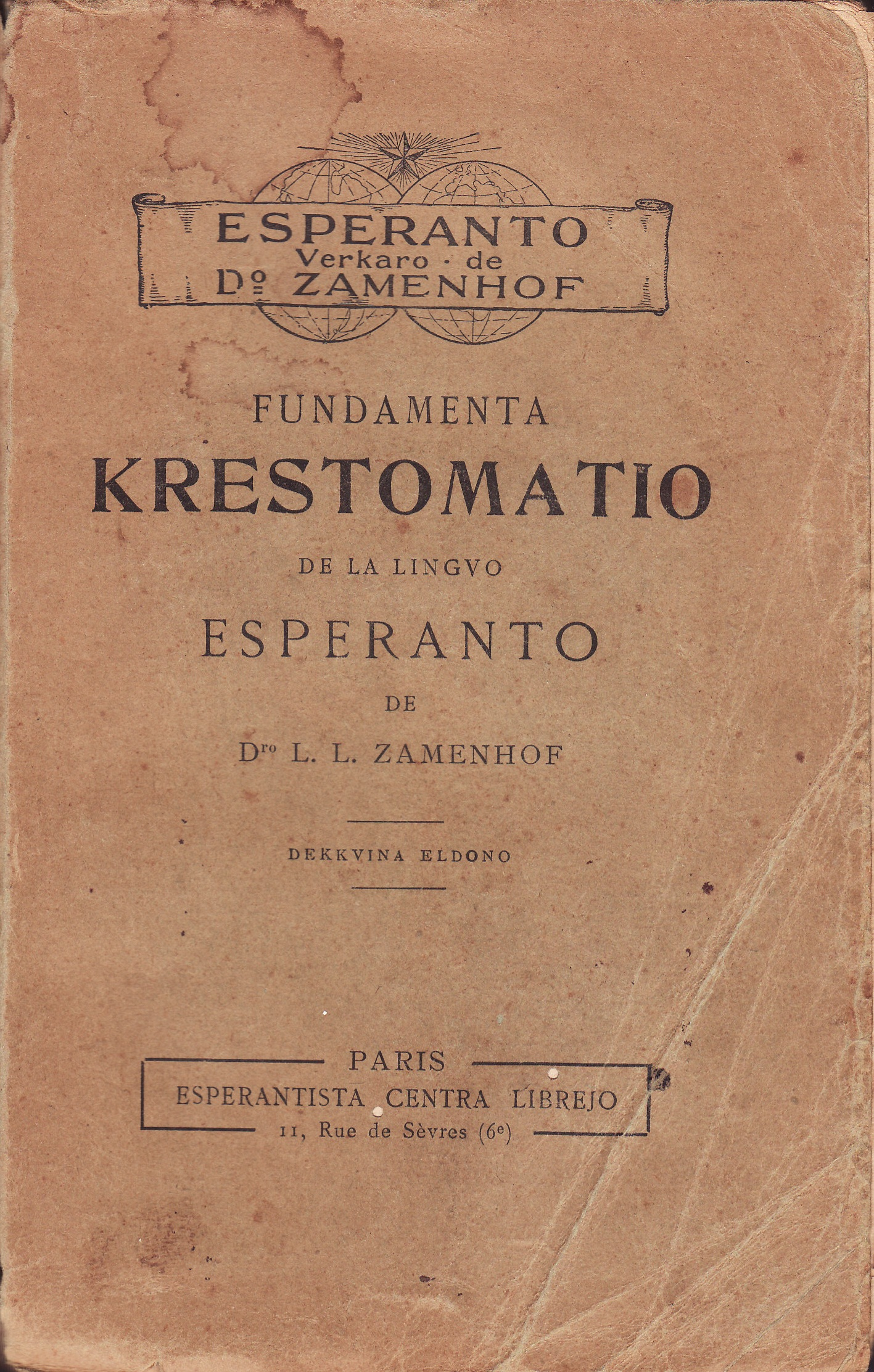 Cover of Fundamenta Krestomatio de la Lingvo Esperanto by L. L. Zamenhof.